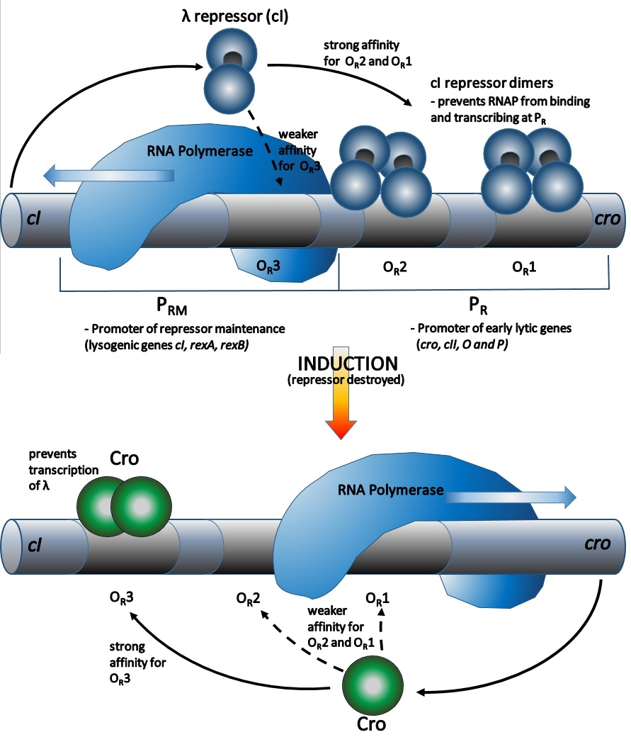 Basic transcription diagram of the phage lambda RM and R operator regions during either a lysogenic or lytic state